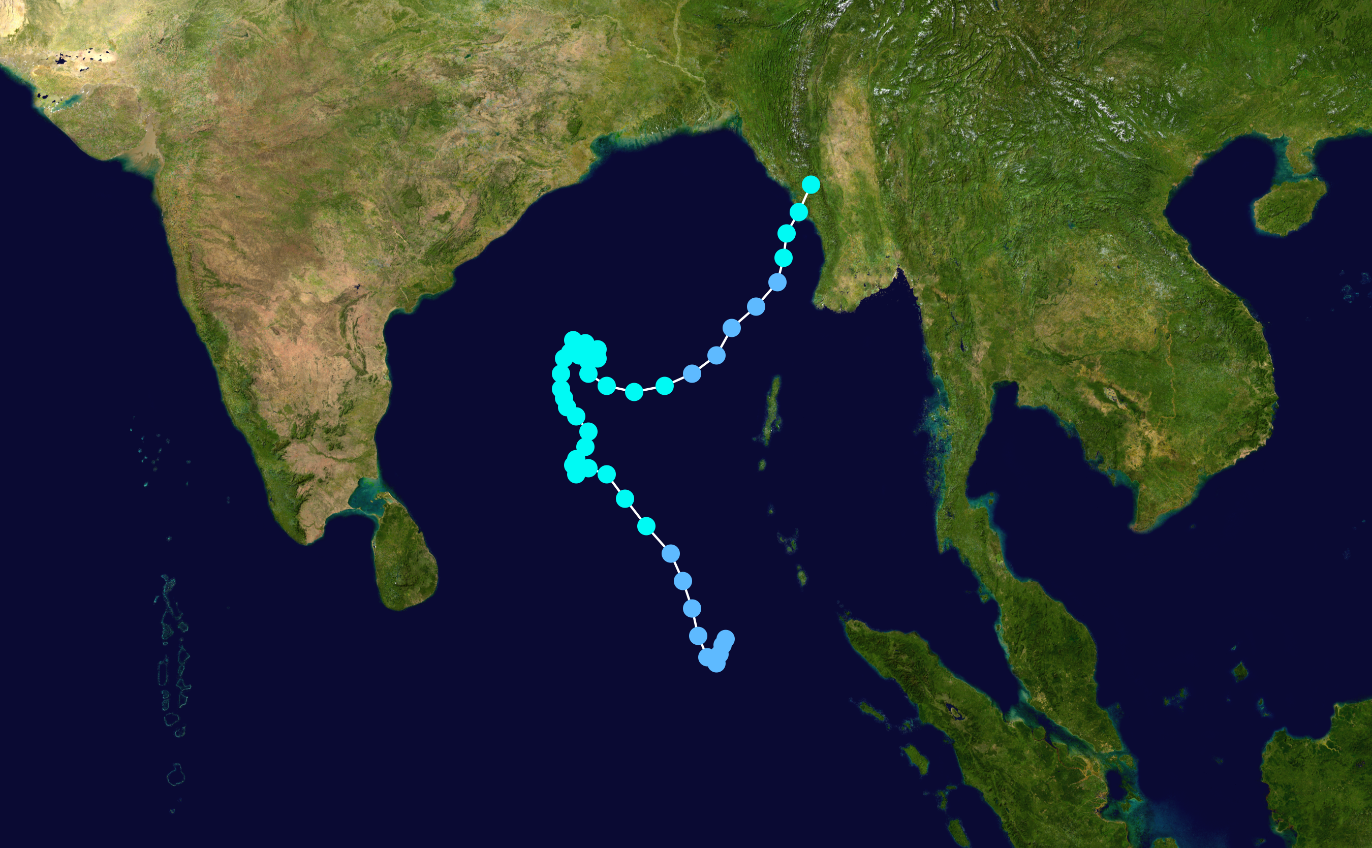 Cyclone 01B 2003 track. Uses the color scheme from the Saffir-Simpson Hurricane Scale.